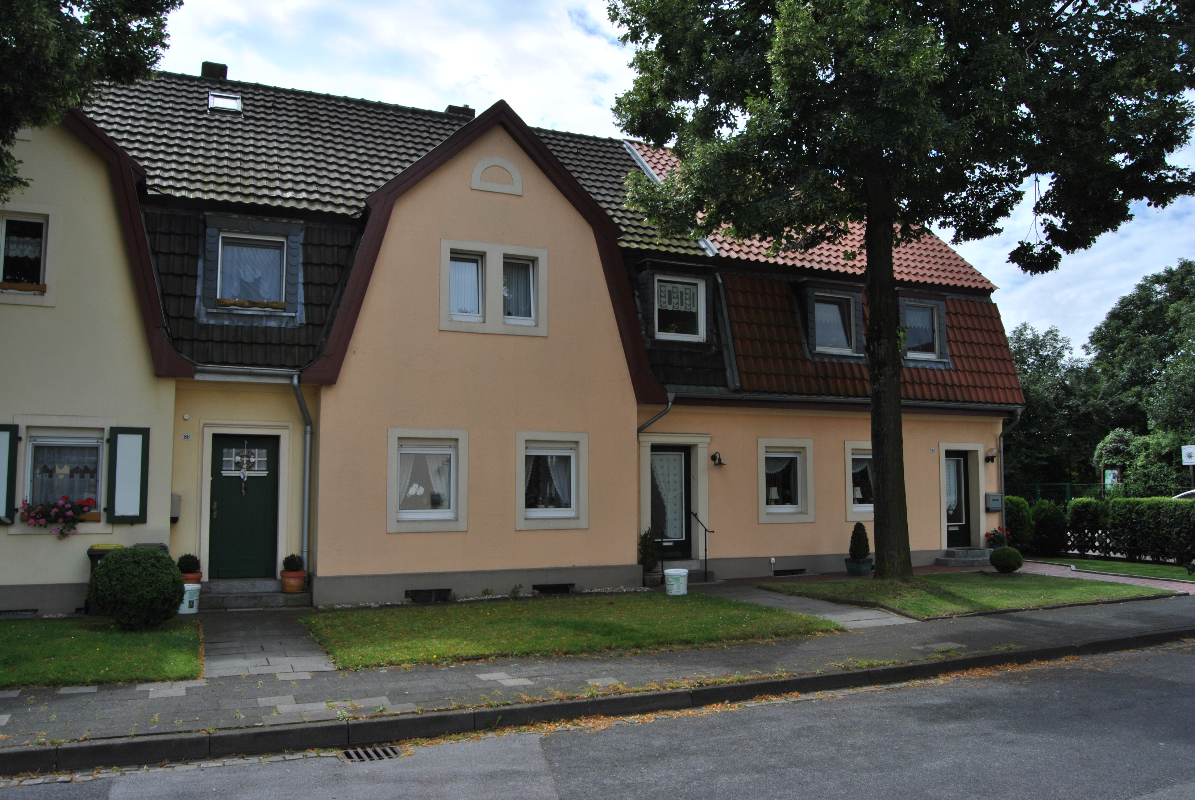 This photograph was taken with a Nikon D3000 This image shows a heritage building in Germany, located in the North Rhine-Westphalian city Duisburg.